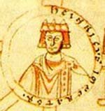 Henry IV, Holy Roman Emperor